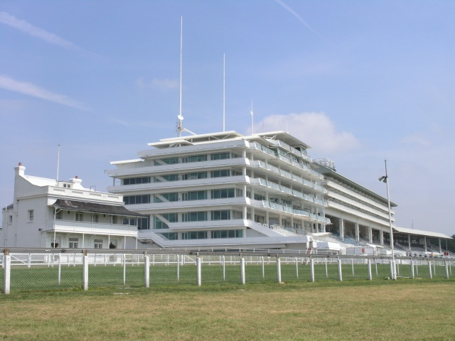 Epsom Racecourse Stadium. Taken from near the finishing line, this is the modern Queen's Stand. The futuristic looking pavilion building was used as a filming location for the James Bond film Goldeneye.